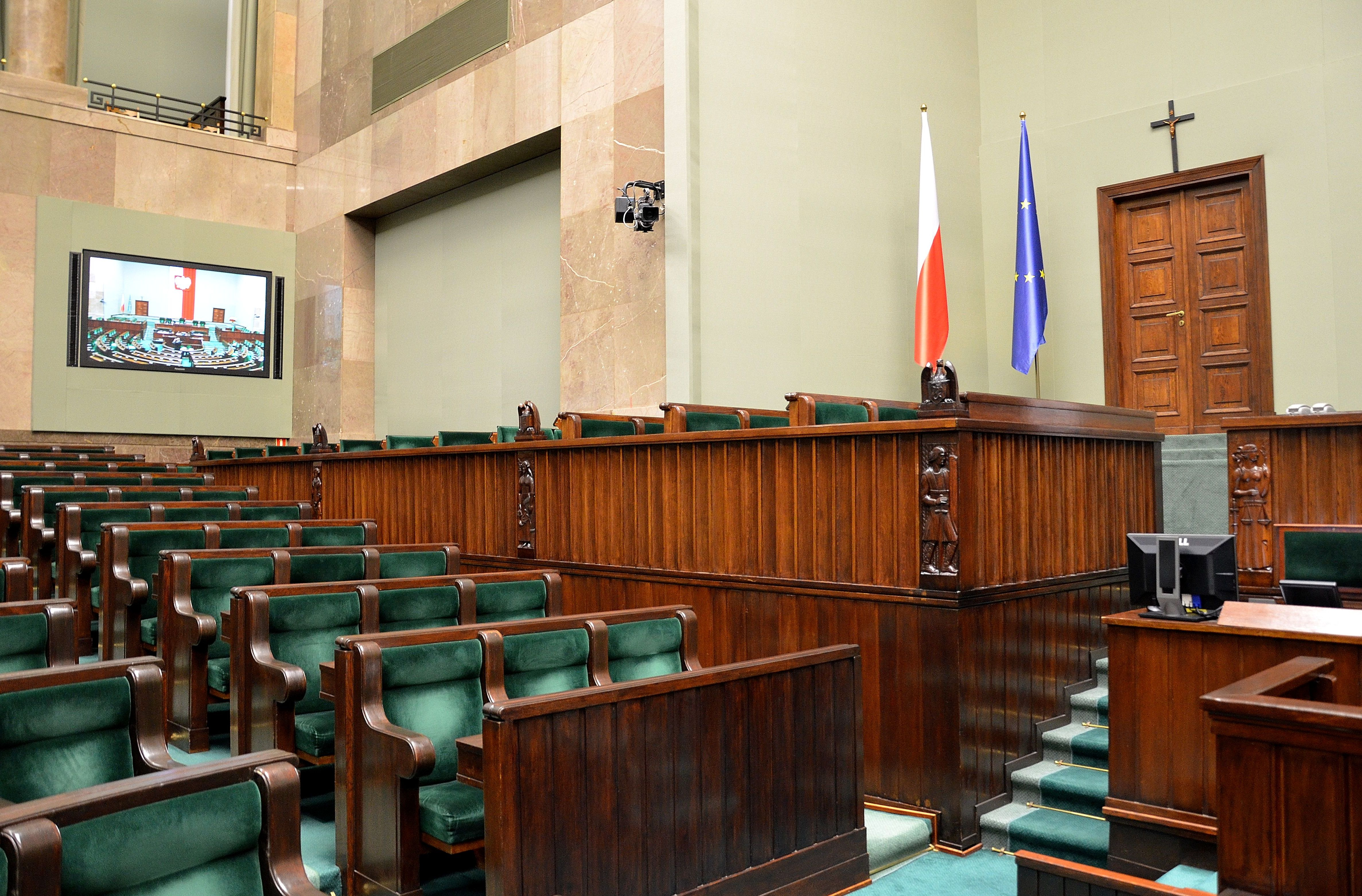 Government benches in the Sejm Plenary Hall